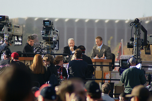 Photo Credit: Truett Holmes College GameDay at Texas Tech in Lubbock, Texas, on November 1, 2008